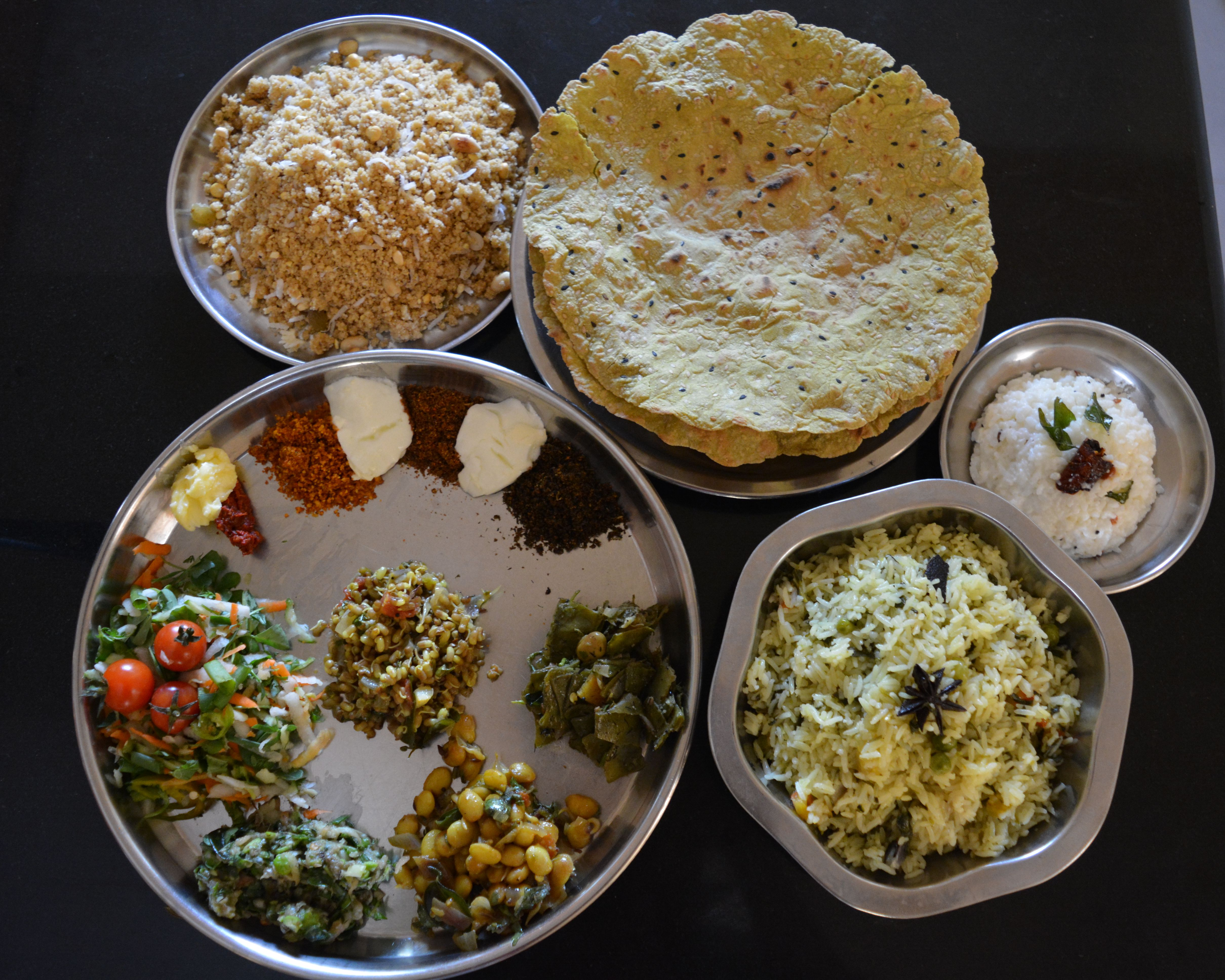 Typical Karnataka style Festive cooking on the day of "Makar Sankranti". It consists of spring summer fresh vegetables and sweet dishes.